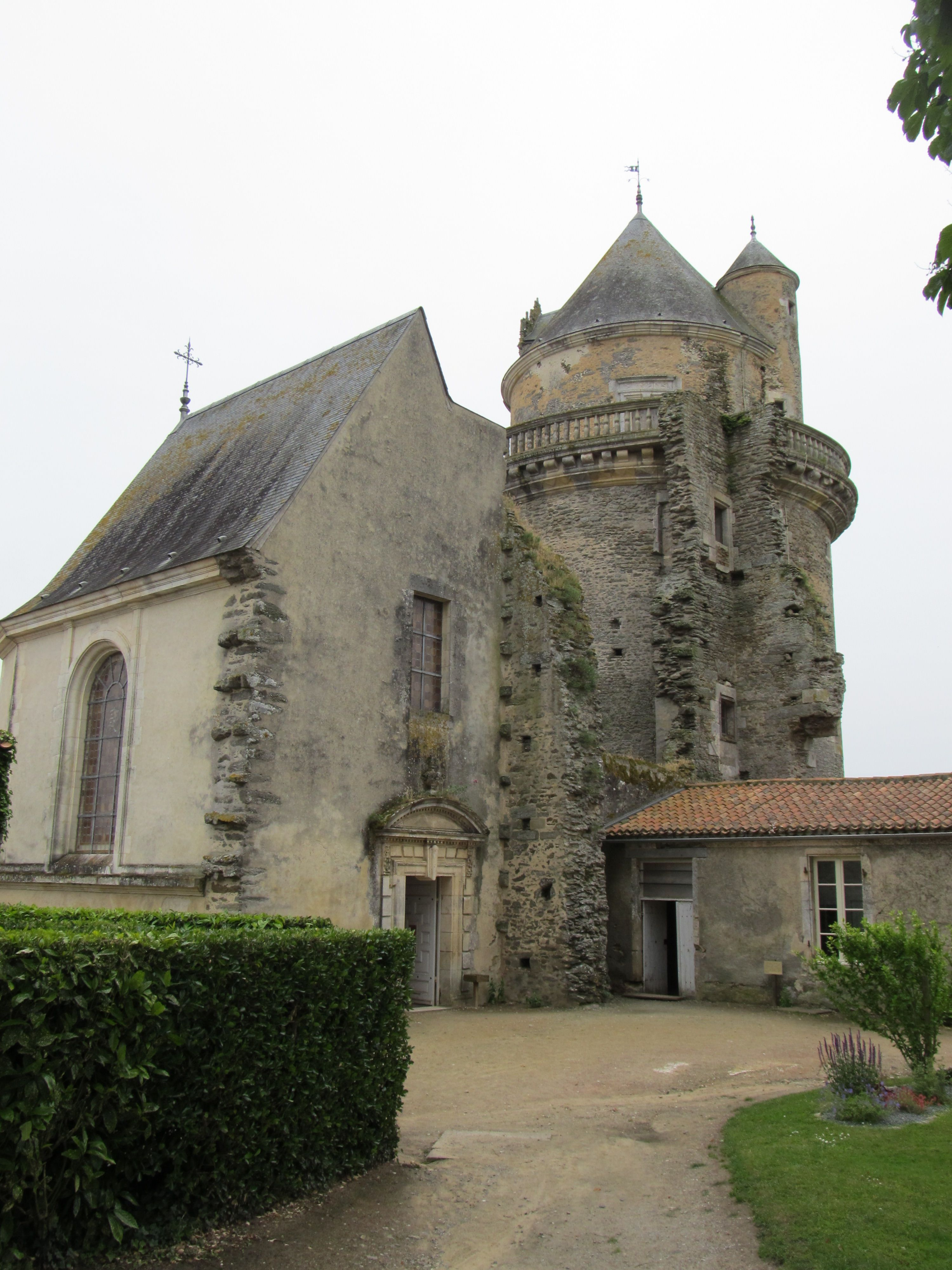 Apremont: Easttower with chapel